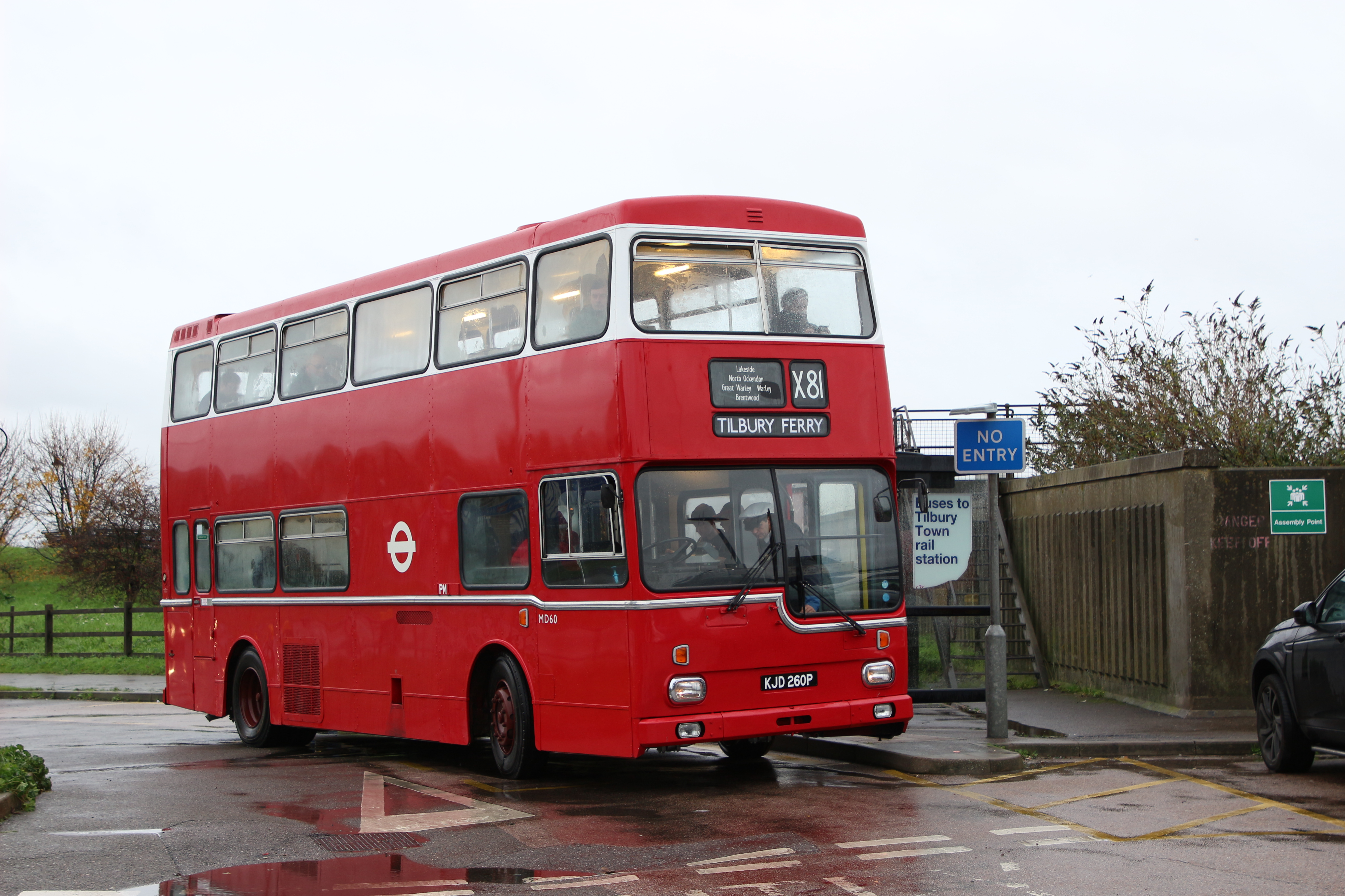 Ensign Bus, Essex's, preserved 1976 Scania Metropolitan, at Tilbury Ferry.